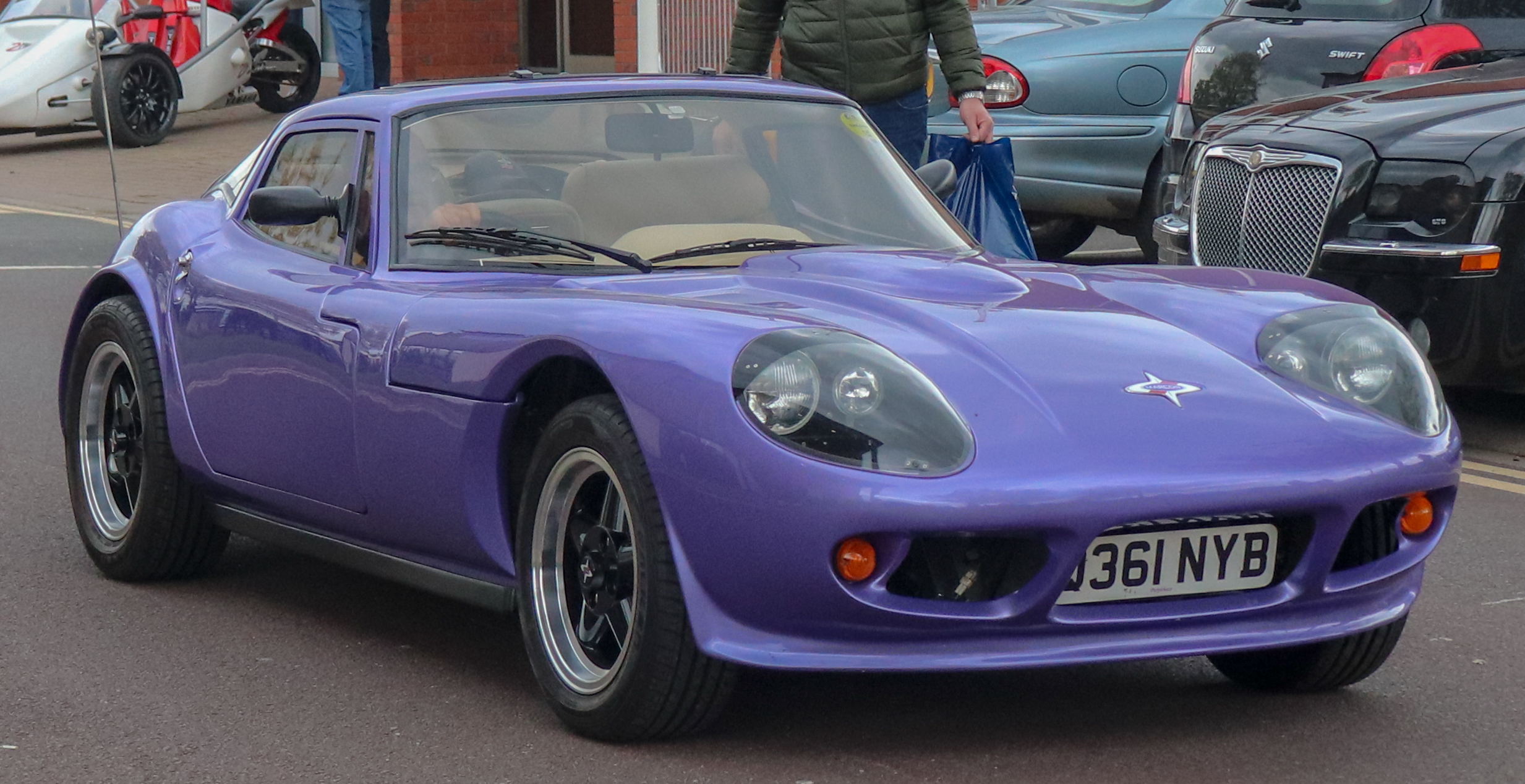 1989 Marcos Mantula 3.5 Taken at the Stoneleigh National Kit Car Motor Show 2019